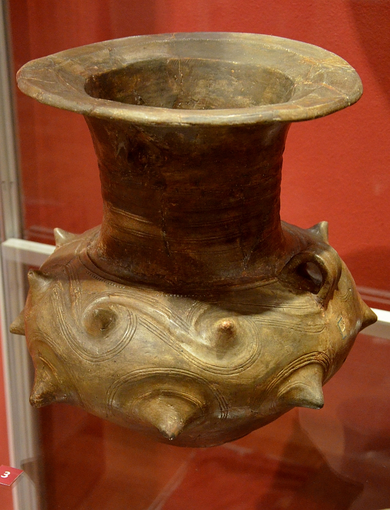 Ottomány ceramics